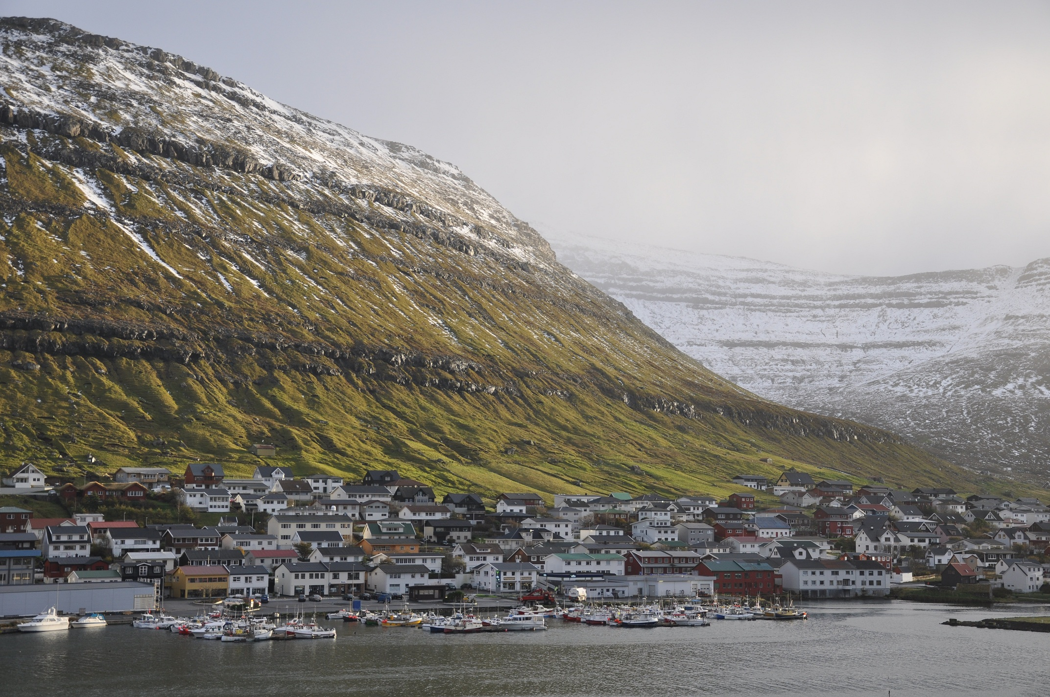 Early morning in Klaksvík (Borðoy, Faroe Islands, Denmark).